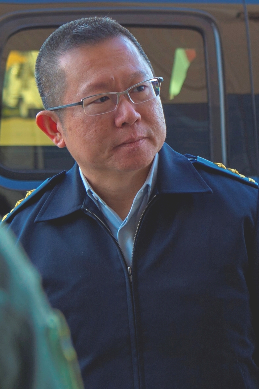 The 811th Operations Group welcomes Maj. Gen. Hoo Cher Mou, chief of the Republic of Singapore air force, to Joint Base Andrews, Md., Oct. 20, 2014. The 811th OG's 1st Helicopter Squadron gave Mou an aerial tour of Washington. Mou is visiting U.S. Air Force key programs and receiving briefings from Air Force leaders as a means to strengthen the coalition relationship. (U.S. Air Force photo/Airman 1st Class Ryan J. Sonnier/Released)